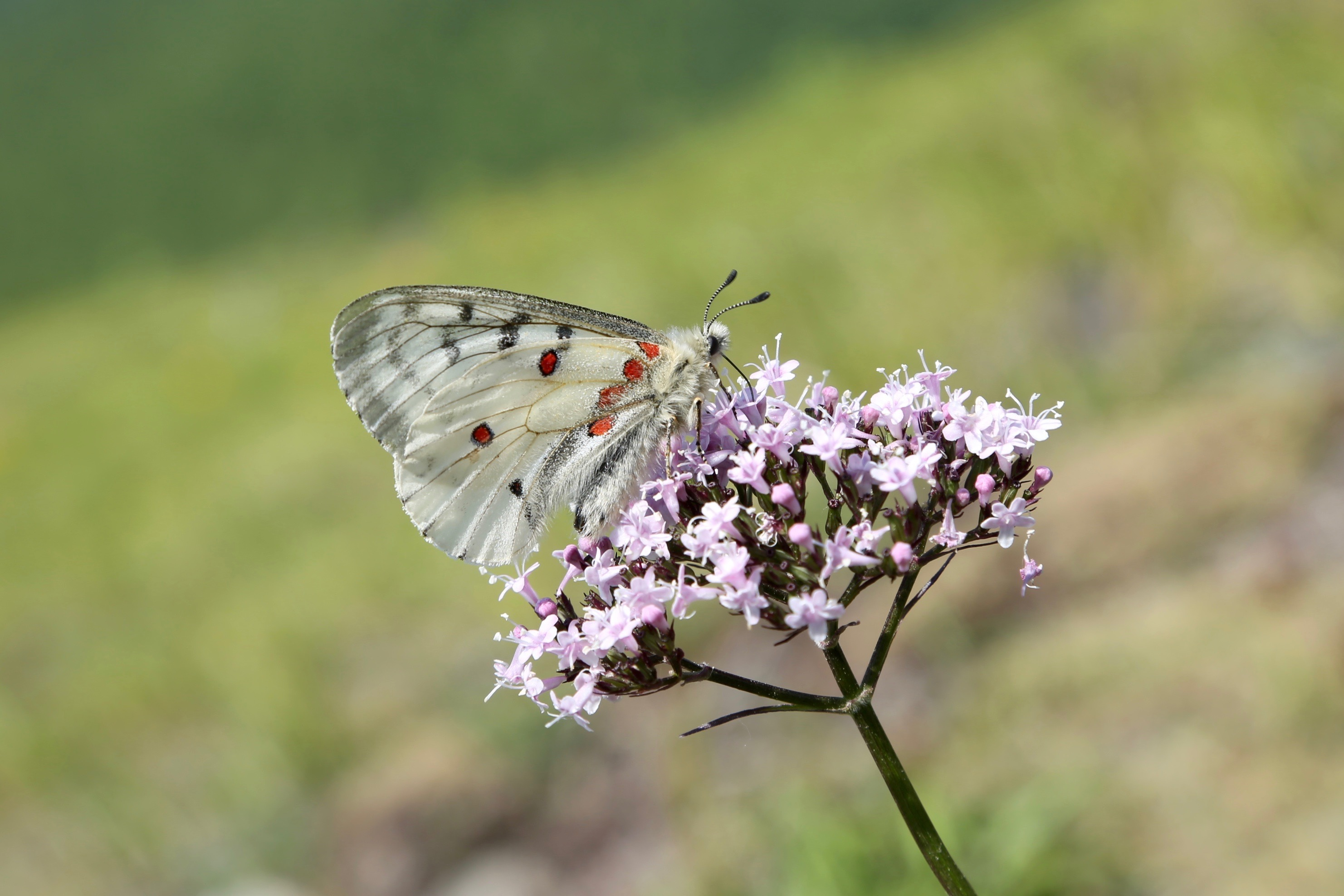 IVO Solnechny town (Khabarovsk Krai, Russian Far East). Flower - Valeriana alternifolia (Valerianaceae)